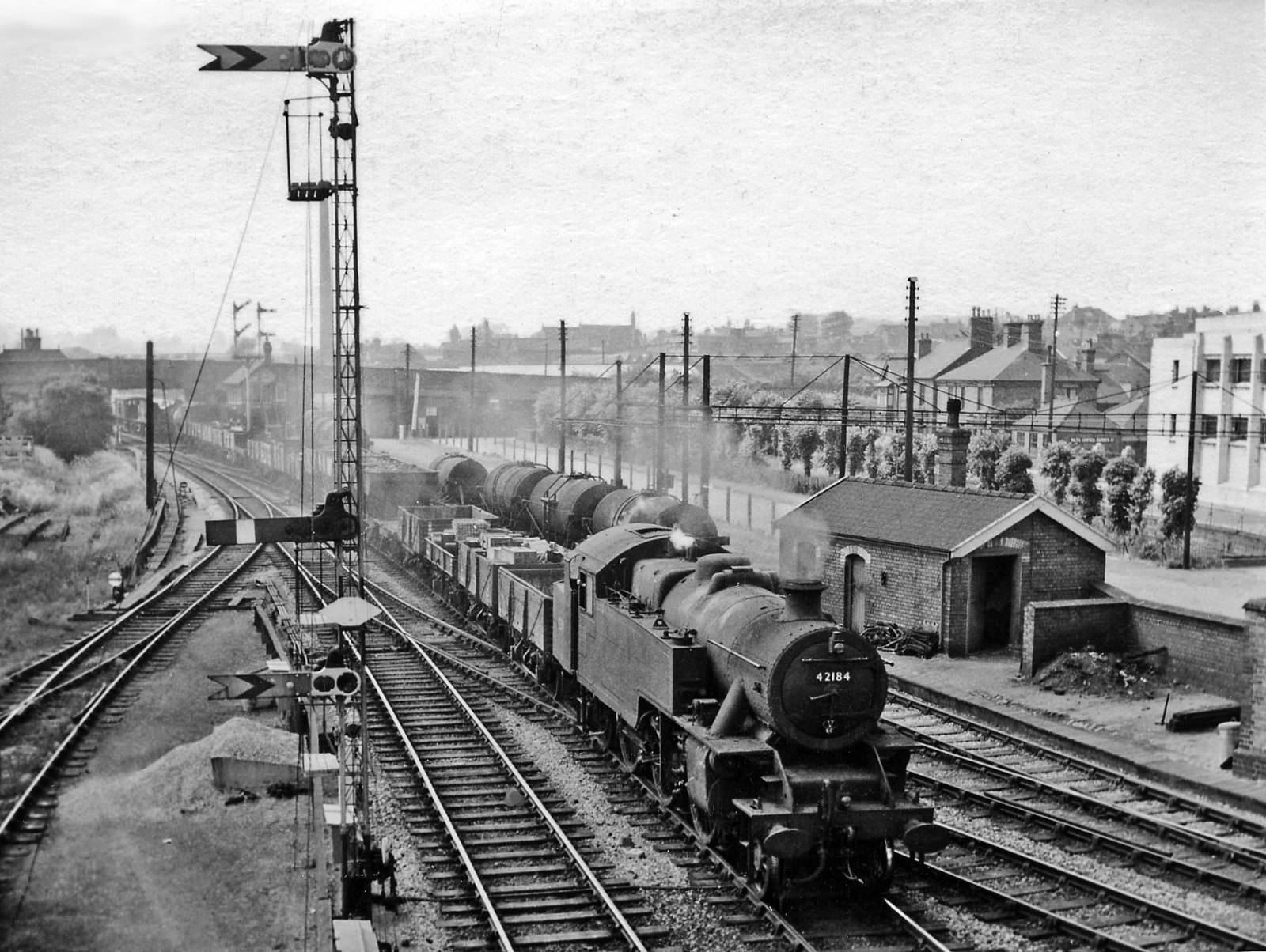 Local goods train entering Uttoxeter. View westward, towards Stoke-on-Trent; ex-North Stafford Stoke - Derby line. The Class H train is headed by LMS-type Fairburn 4MT 2-6-4T No. 42184.